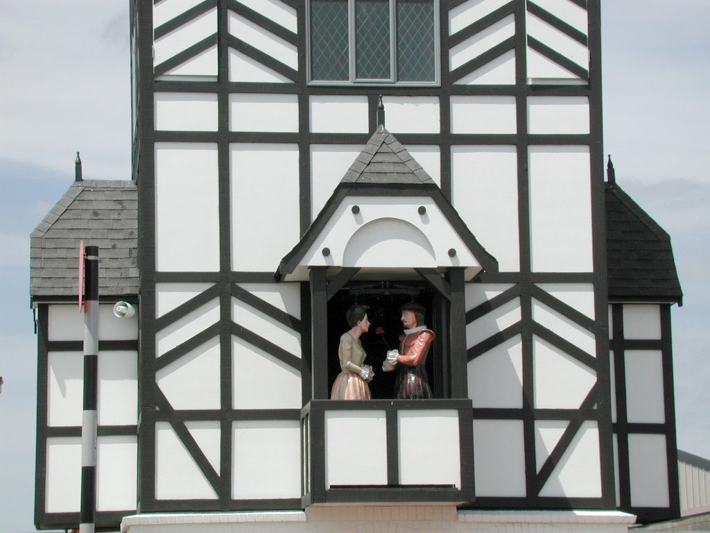 Stratford clock tower "Glockenspiel" - Romeo and Juliet.